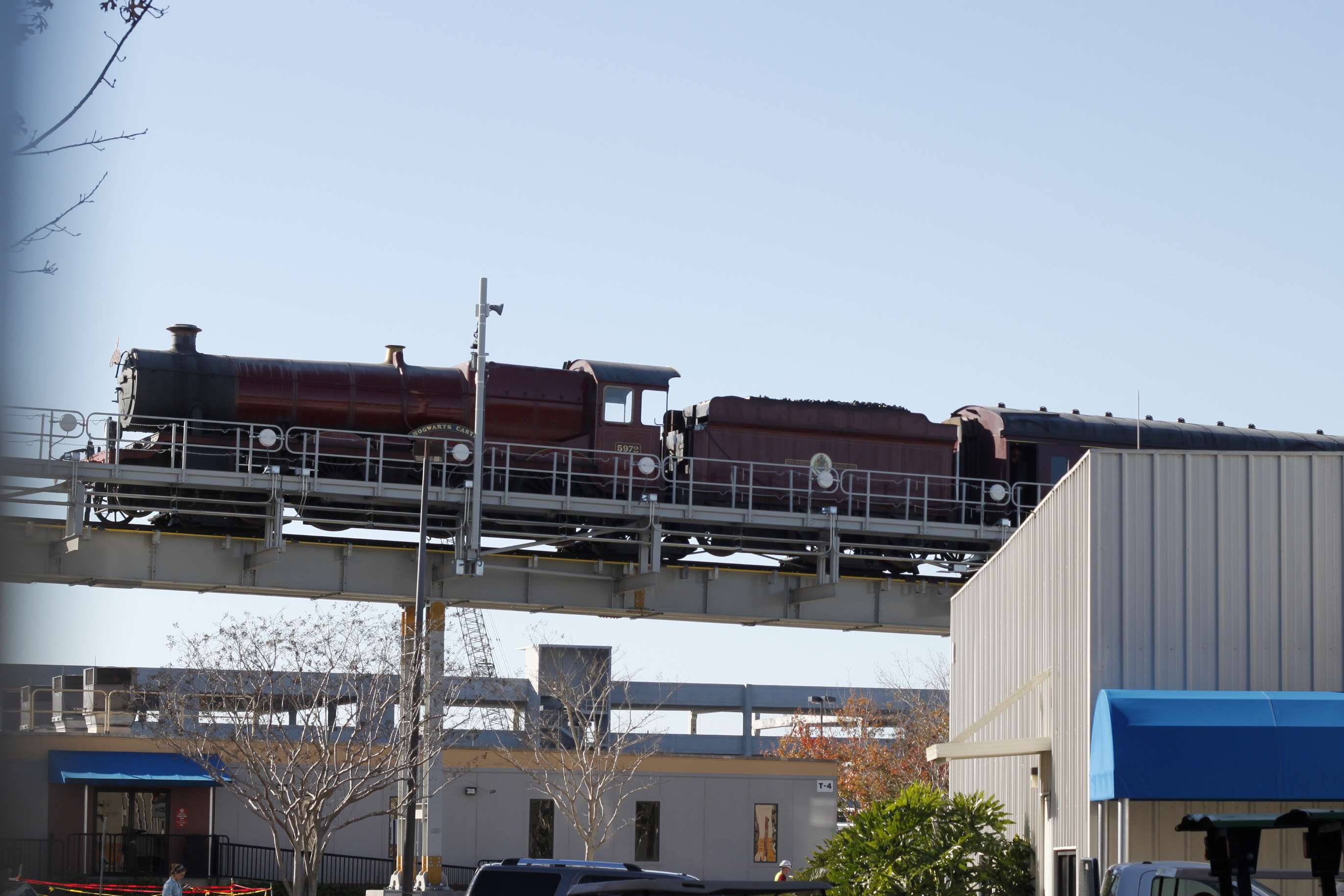 One of the two Hogwarts Express trains at the Universal Orlando on the track between the two Wizarding Worlds of Harry Potter themed areas.